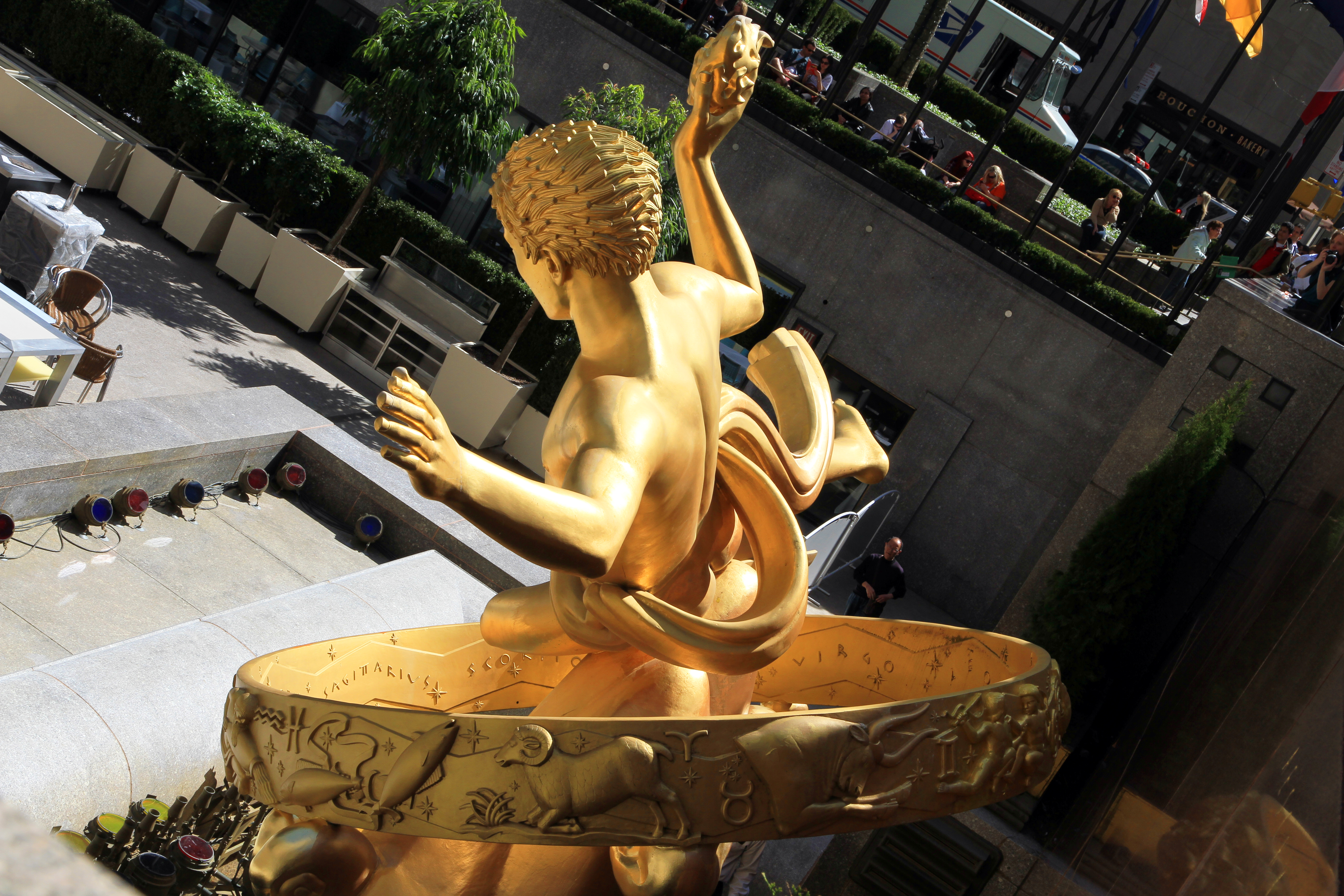 Titan Prometheus